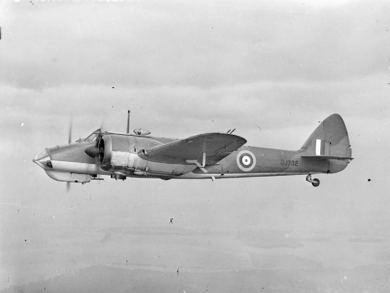 Aircraft of the Royal Air Force 1939-1945- Bristol Type 160 Blenheim V. Blenheim Mark V prototype, DJ702, which served with No. 12 (Pilot) Advanced Flying Unit and No. 17 Service Flying Training Unit, in flight, 1943.